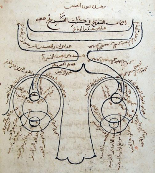 The structure of the human eye according to Ibn al-Haytham, late 11th century CE of copy of the Kitab al-Manazir (MS Fatih 3212, vol. 1, fol. 81b, Süleimaniye Mosque Library, Istanbul).